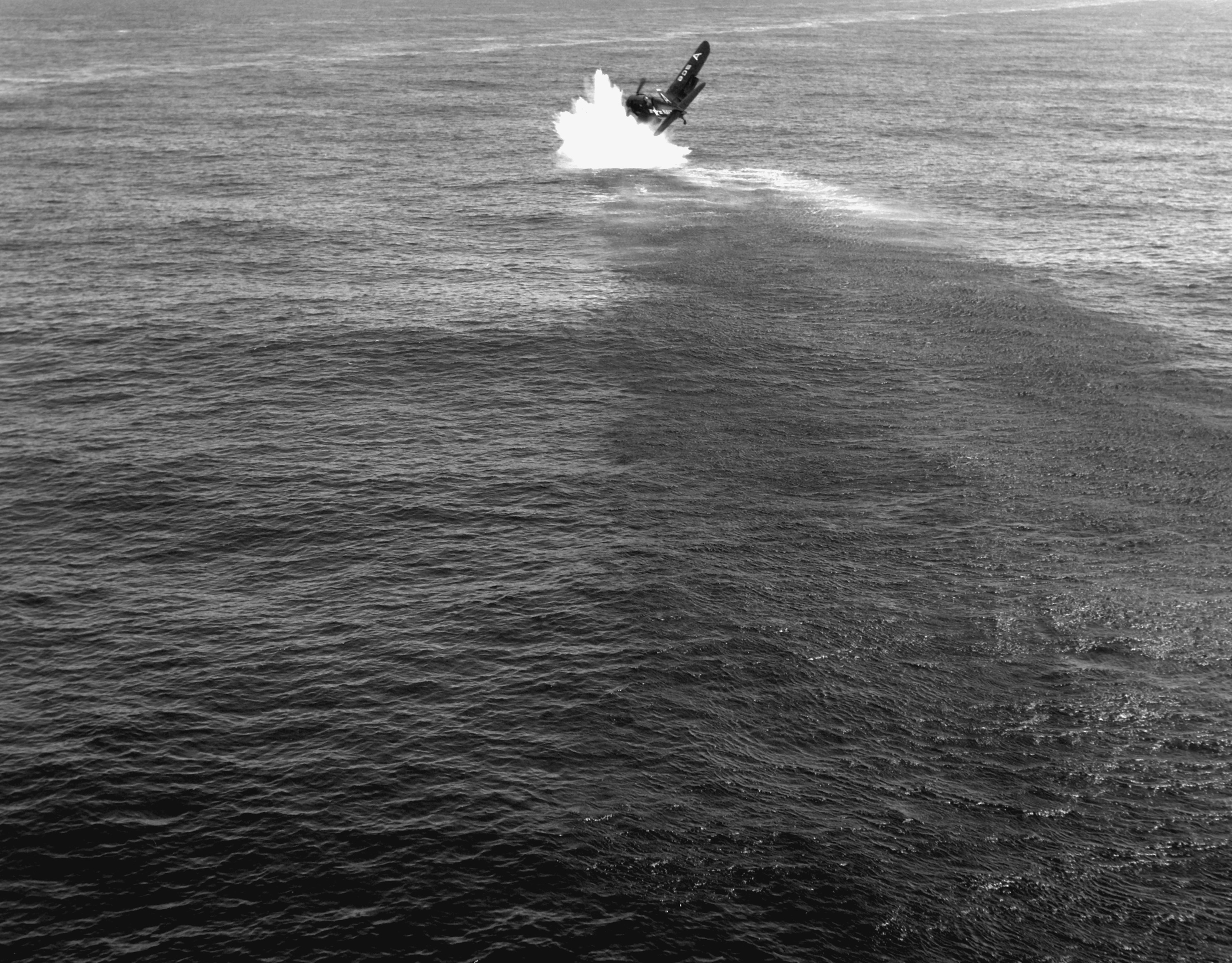 Lt.(jg) Oliver D. Droege, USN, of Kansas City, Missouri (USA), assigned to fighter squadron VF-884 Bitter Birds, crashes with a Vought F4U-4 Corsair after experiencing engine failure on takeoff from the aircraft carrier USS Boxer (CV-21) on 19 May 1951. The Boxer was deployed to Korea with Carrier Air Group 101 (CVG-101) from 2 March to 24 October 1951. Lt.(jg) Droege was rescued by a helicopter.